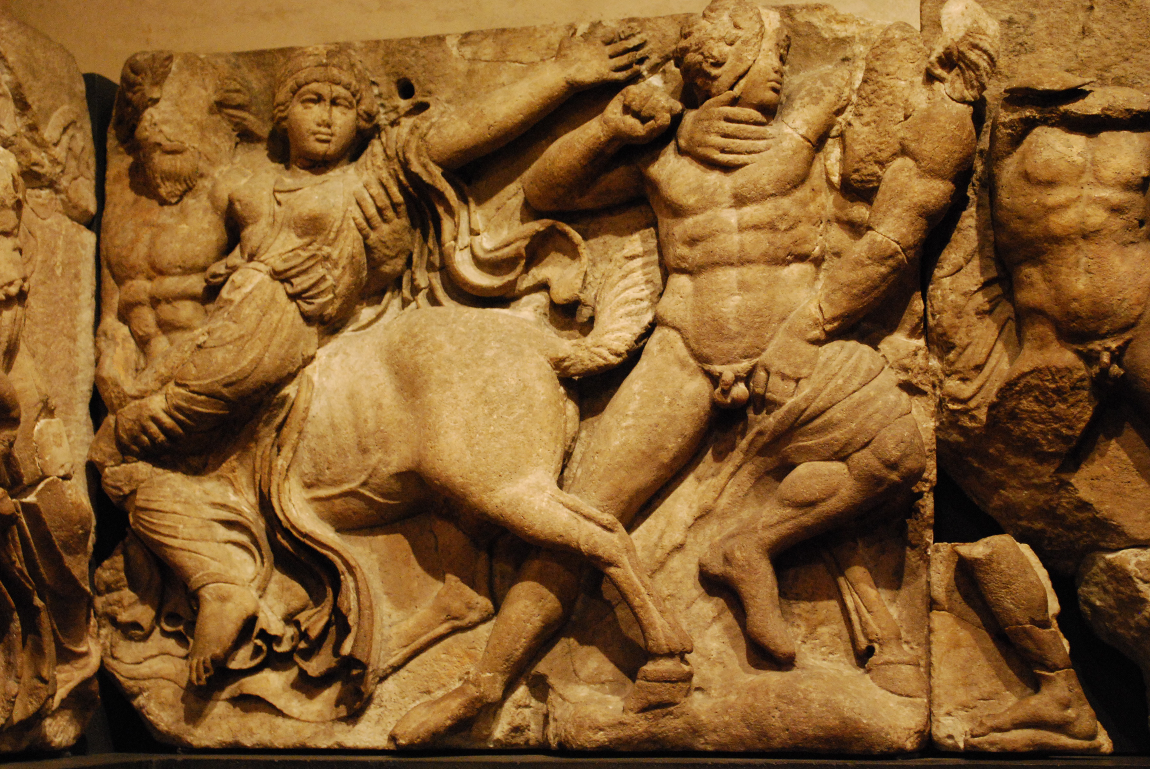 The Bassae Frieze is made from a set of 23 marble panels that were in the Temple of Apollo at Bassae. They were carved just before 400 B.C. The stones are on permanent display in a specially constructed room in Gallery 16 in the British Museum in London. Copies of this frieze decorated the walls of the Ashmolean Museum and London's Travellers Club. (Note the source numbers below show the order of the pictures)